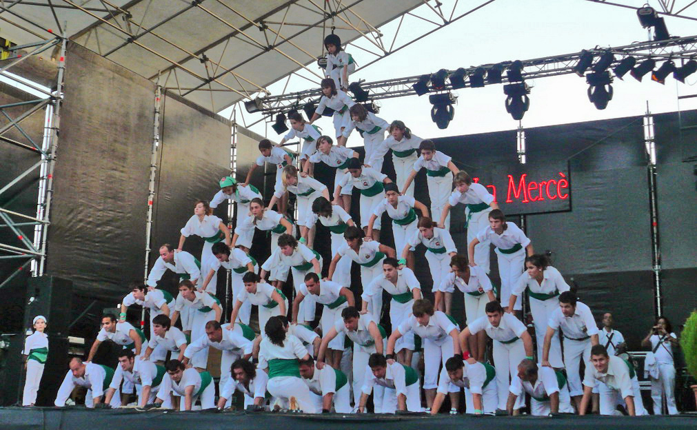 Falcons de Vilafranca in Barcelona